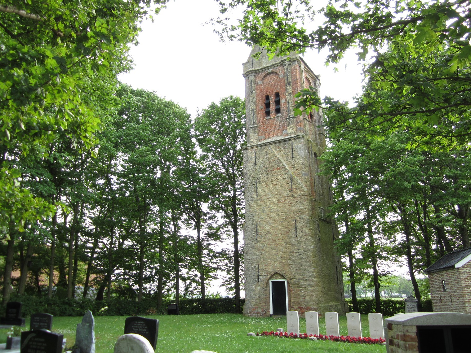 Church tower and churchyard of the hamlet of Skillaard (Schillaard), village of Mantgum, Friesland, the Netherlands.